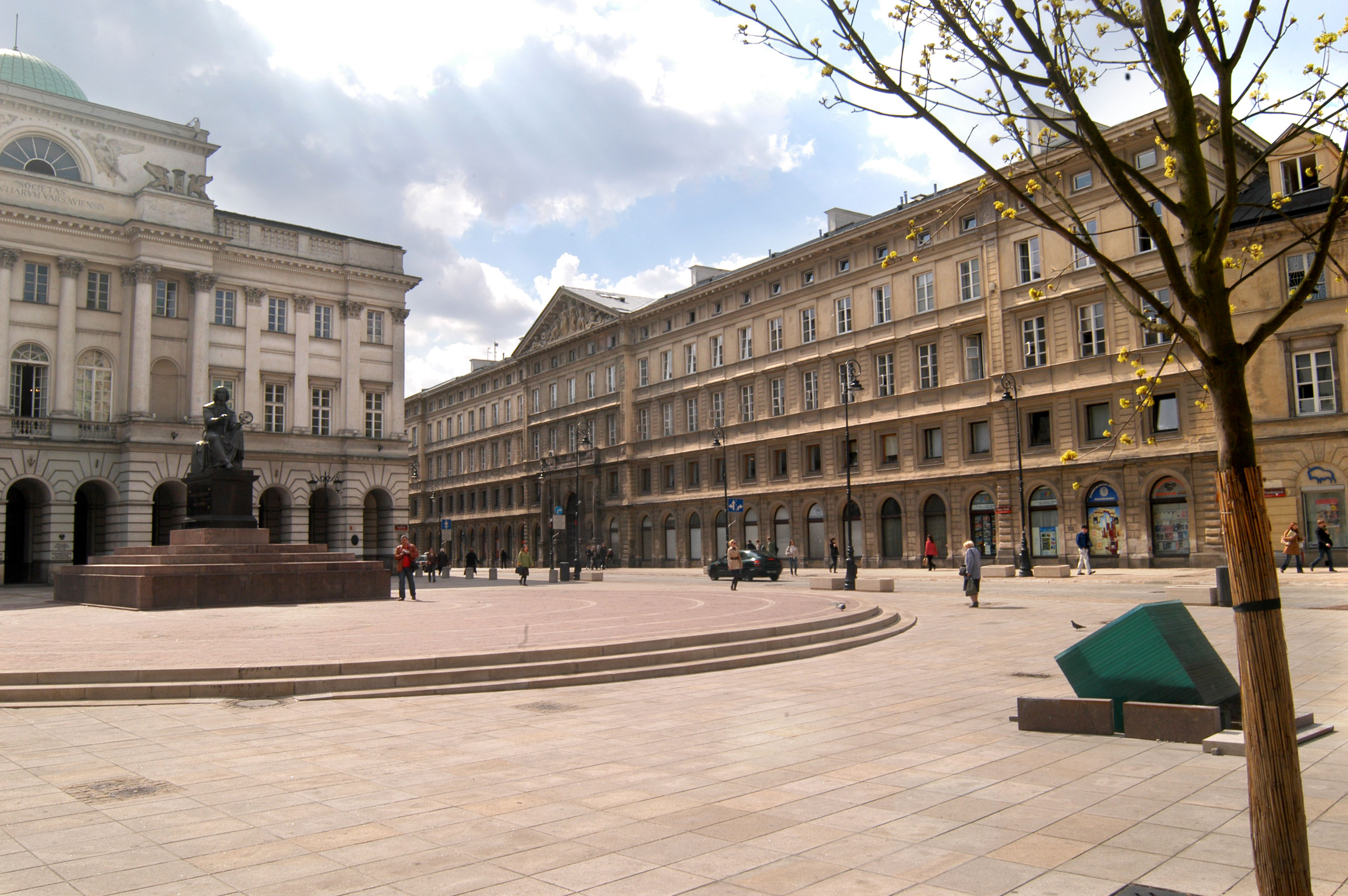 Pałac Zamoyskich in Warsaw